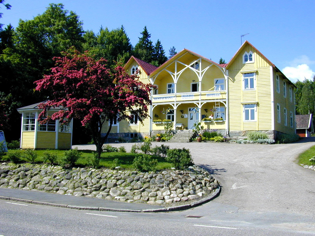 Alebo Pensionat i Unnaryd